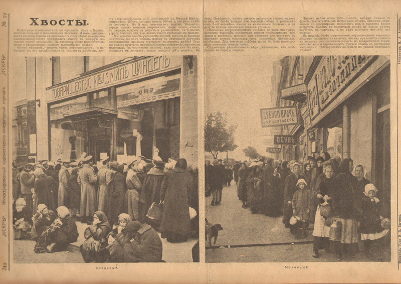 Queues (Khvosty). Photo by A. I. Savelyev. 1917